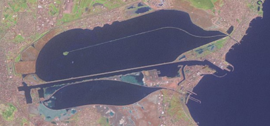 Satellite image of the Lake of Tunis (Tunisia)